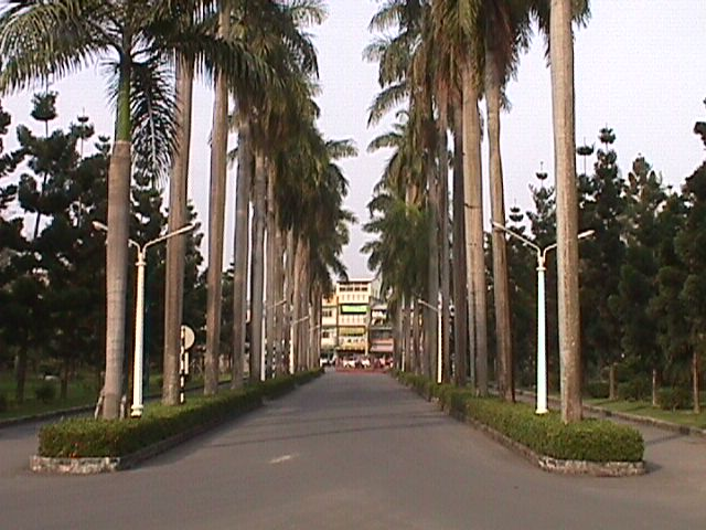 Unidentified palms (not Coconut)